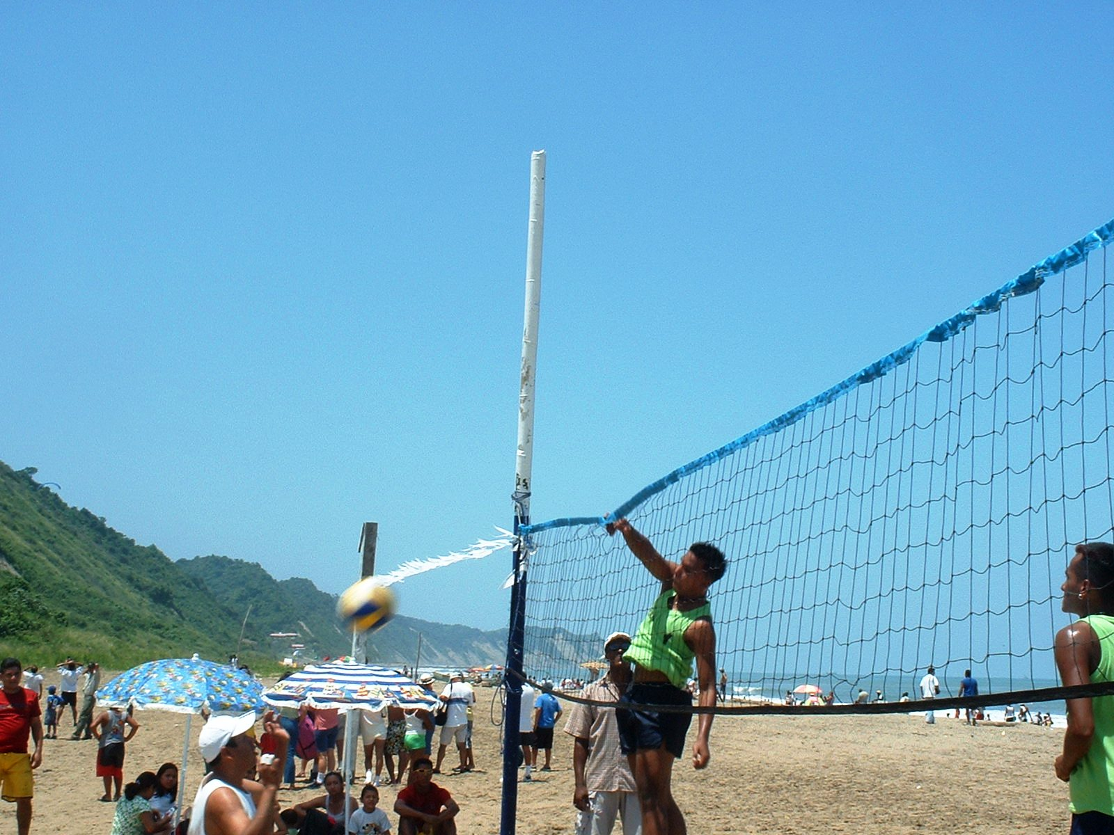 Las palmas